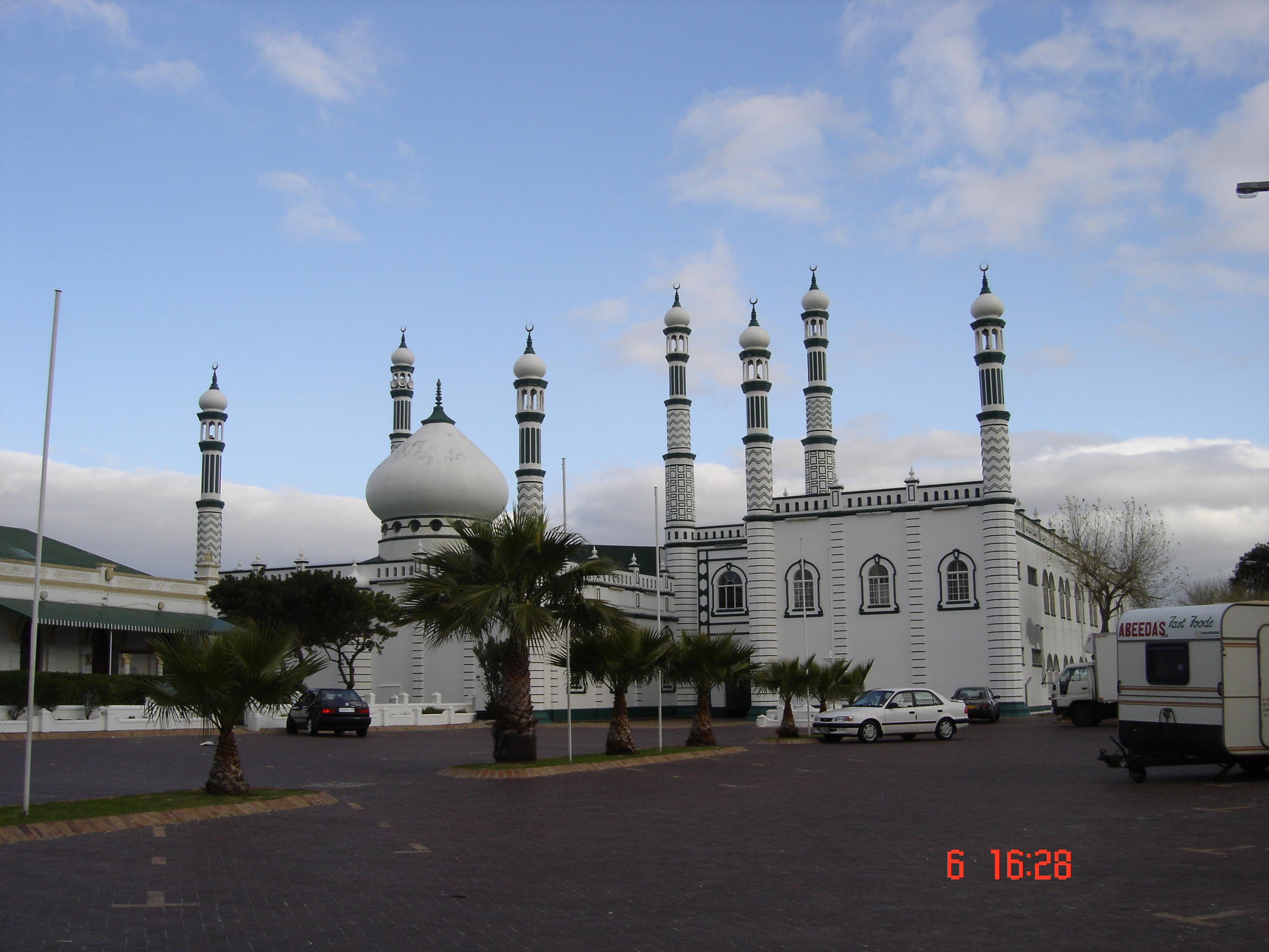 The Habibia Soofie Saheb Jamia Masjid was built in 1905 by Shah Goolam Muhammad Soofie Saheb (R.A) of Durban. The Habibia Soofie Saheb Masjid, also known as the Habibia or the College, is the Third largest Masjid and second largest Islamic complex in Southern Africa. The Habibia Soofie Saheb Masjid stands as a hub of Spirituality and Sufism in Cape Town